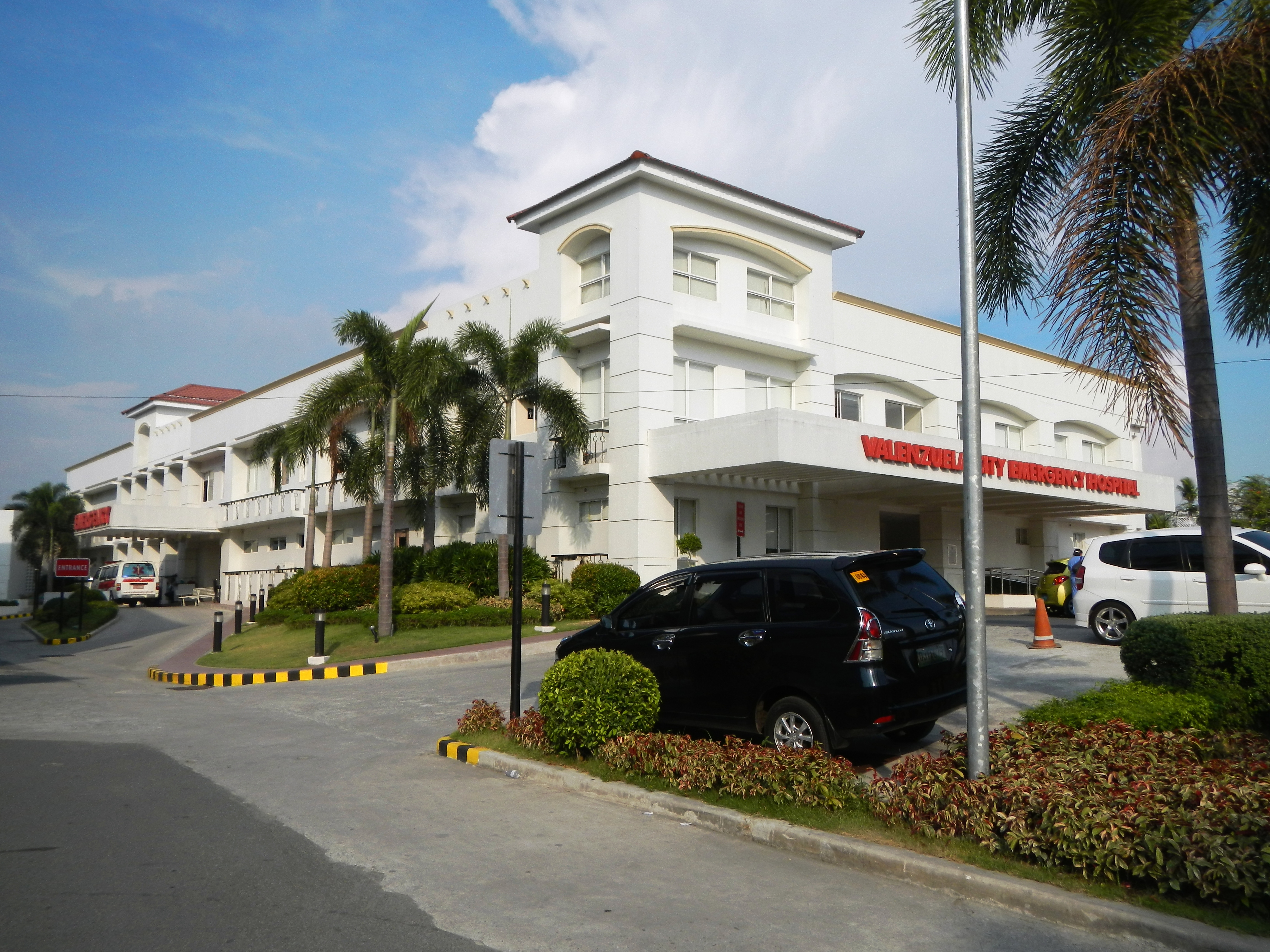 Valenzuela City Astrodome is beside or adjoins Valenzuela City Emergency Hospital which is in front of the Dalandanan National High School, 025 G. Lazaro Street, Dalandanan, in Barangay Dalandanan, Valenzuela City - Valenzuela, Philippines (List of barangays in Valenzuela - Valenzuela).